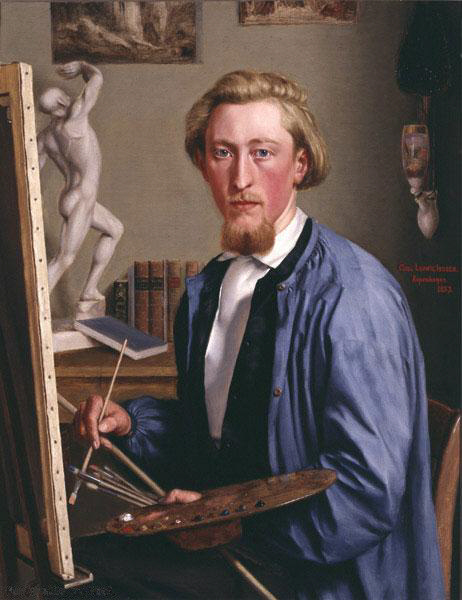 Self-portrait, Kopenhagen 1857